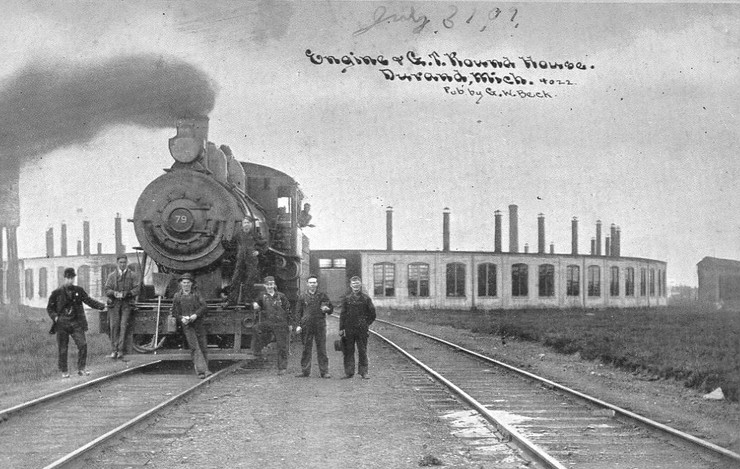 Postcard photo of the Grant Trunk Western roundhouse in Durand, Michigan.